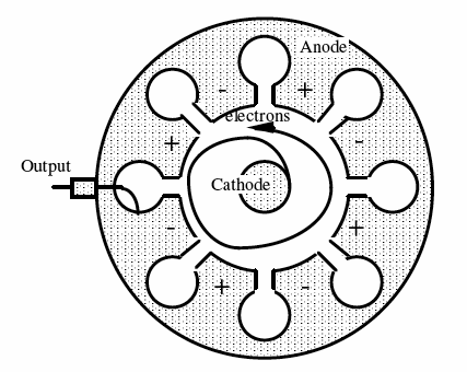 Magnetron Licensing en:/Images